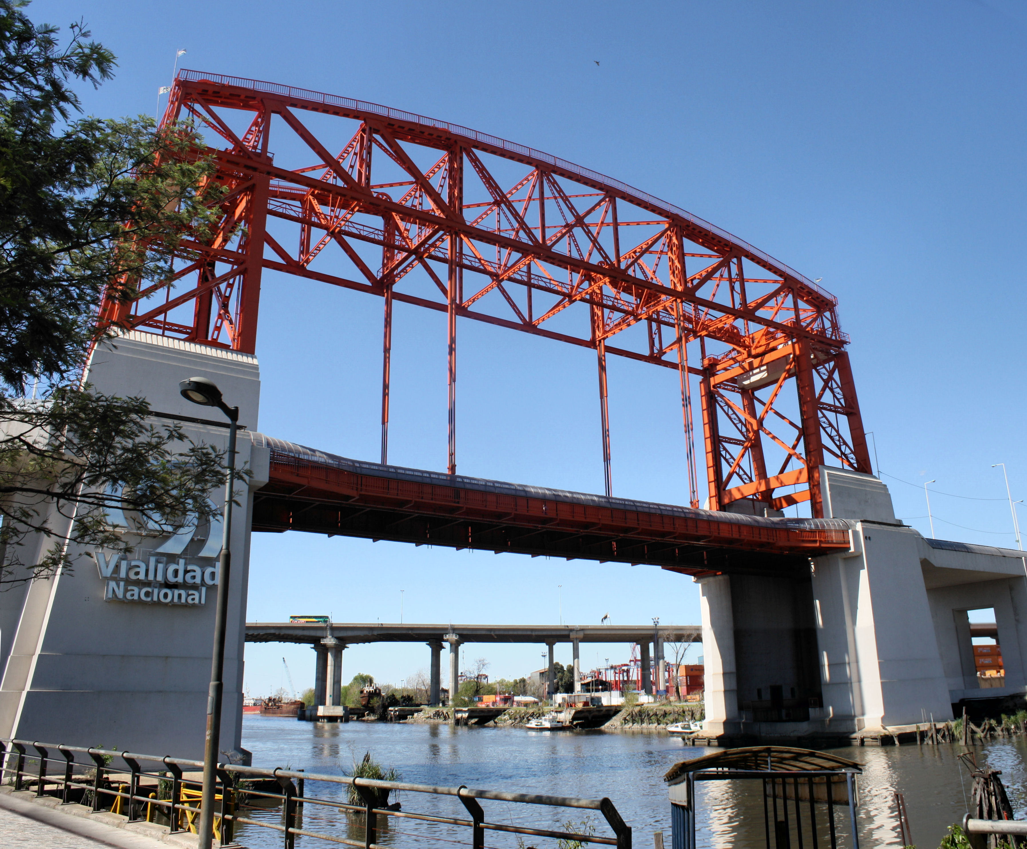 The new Nicolas Avellaneda Transporter Bridge, La Boca